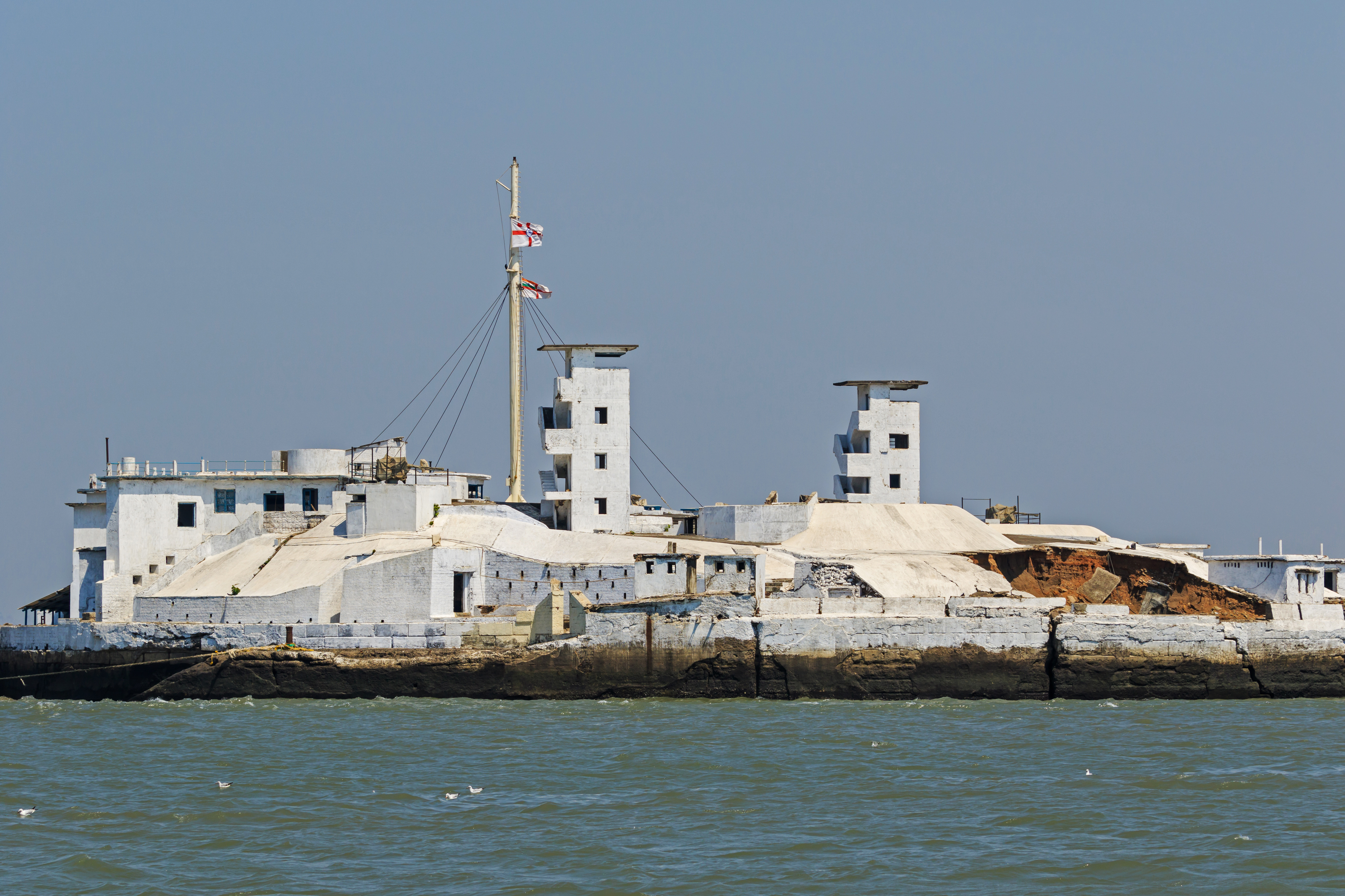 Middle Ground Coastal Battery at Mumbai Harbour. Taken from Mumbai-Elephanta ferry. Ma-harashtra, India.